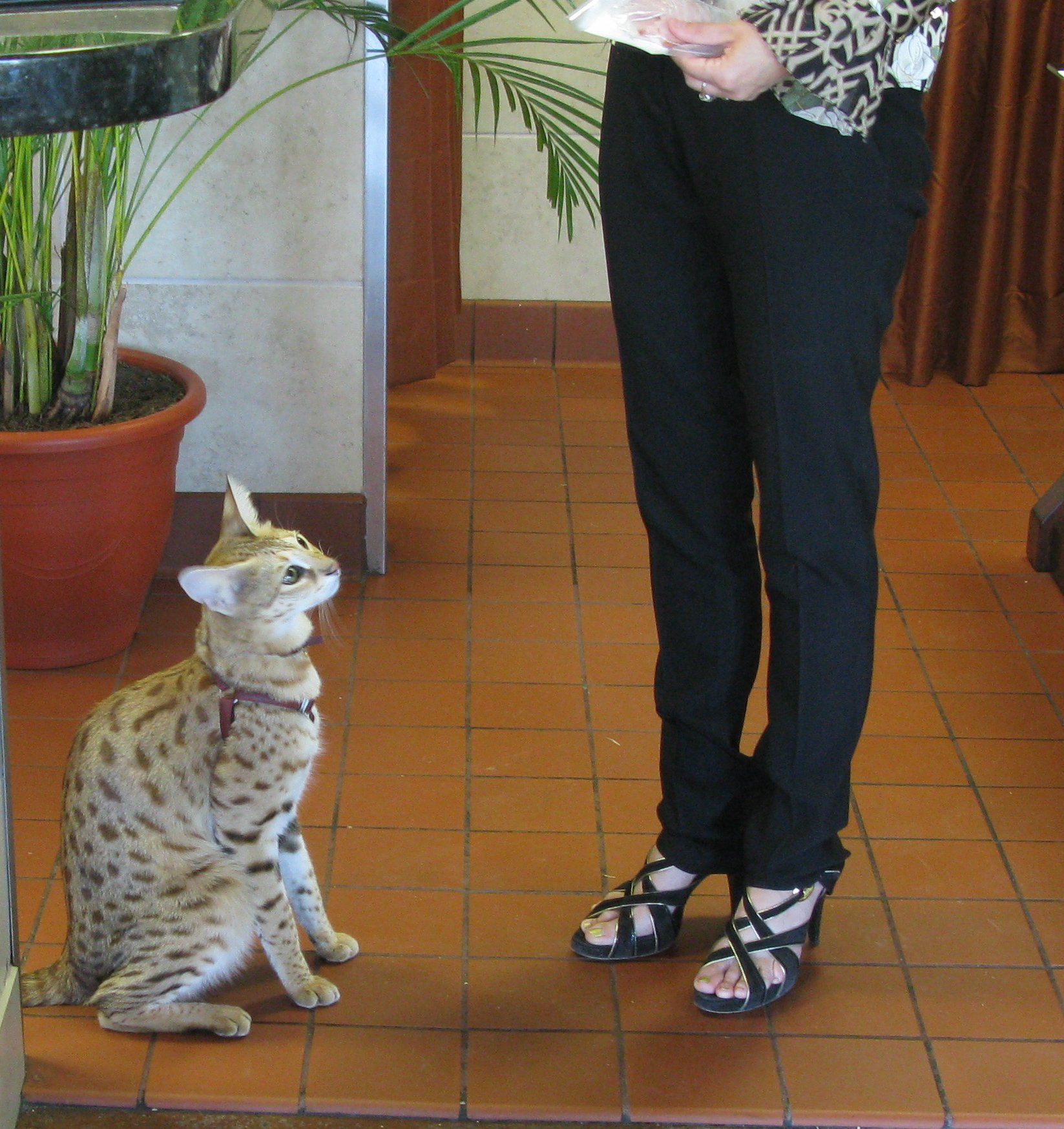 Met Scarlett this morning, she is 17.1 inches from shoulder to the toe. The worlds tallest pet cat according to Guinness Book of World Records. Her owner is holding a treat for her.